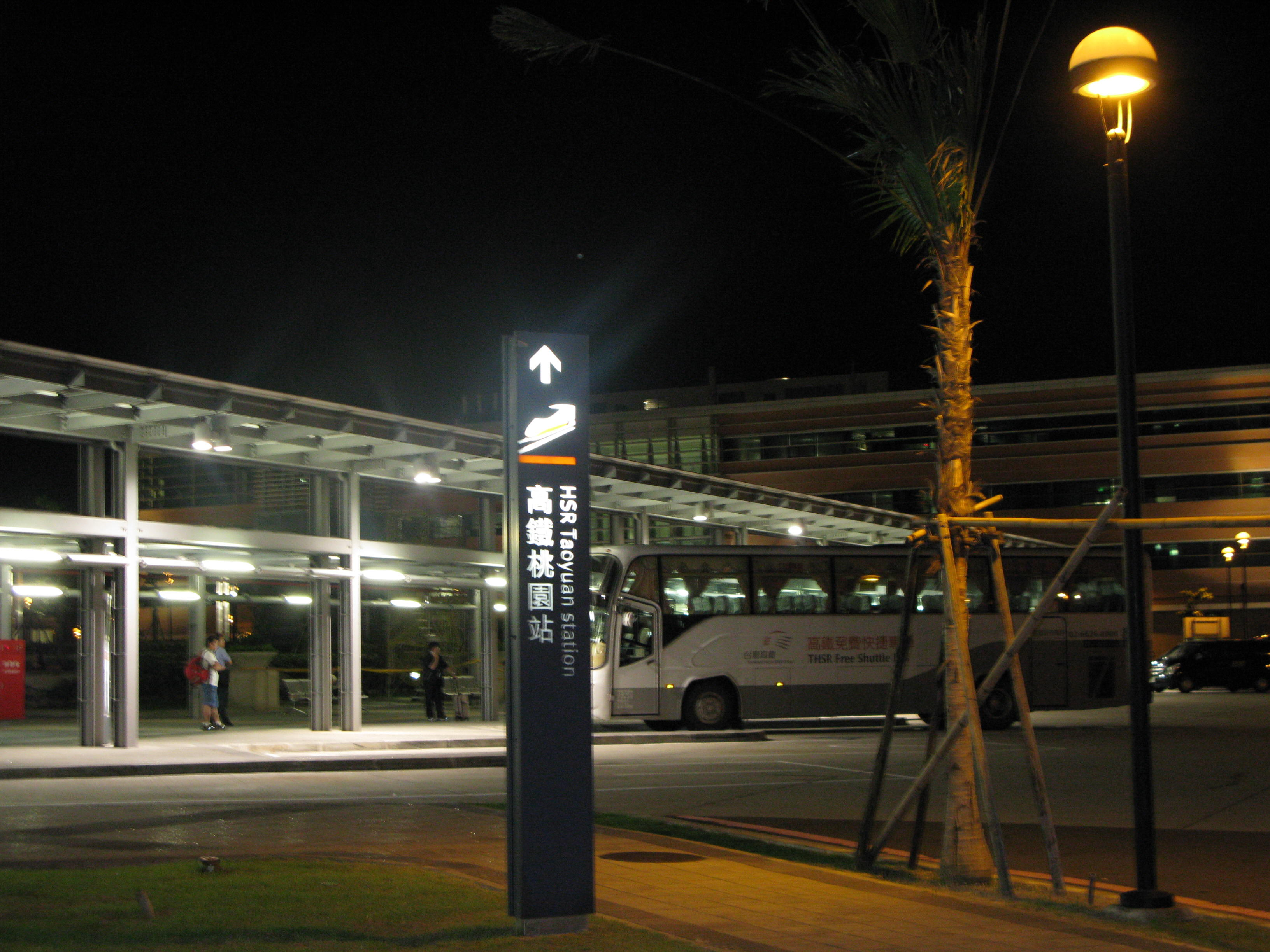 THSR-Taoyuan Station-3 , Taiwan